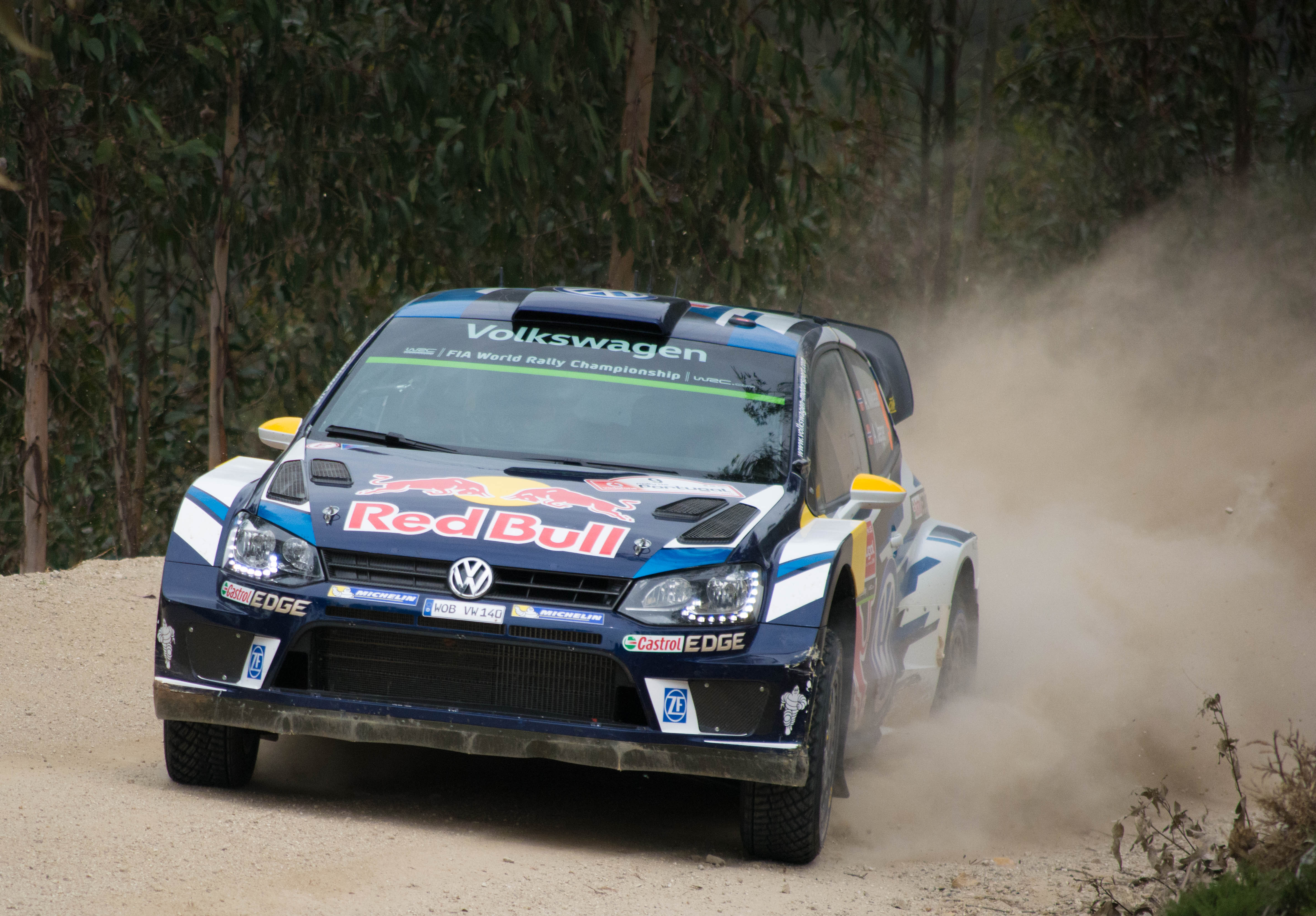 Rally of Portugal 2016. Section of "Amarante", on the first pass